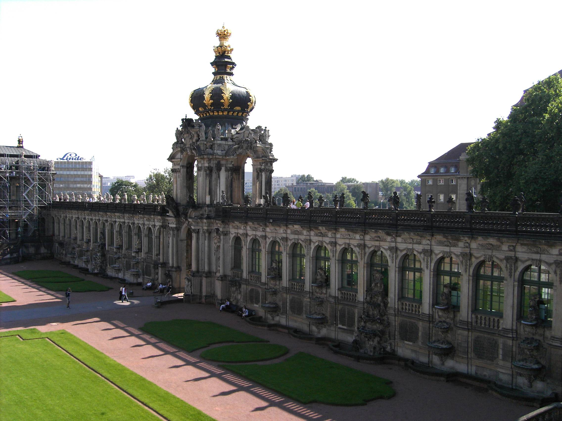 Dresdner Zwinger, Kronentor